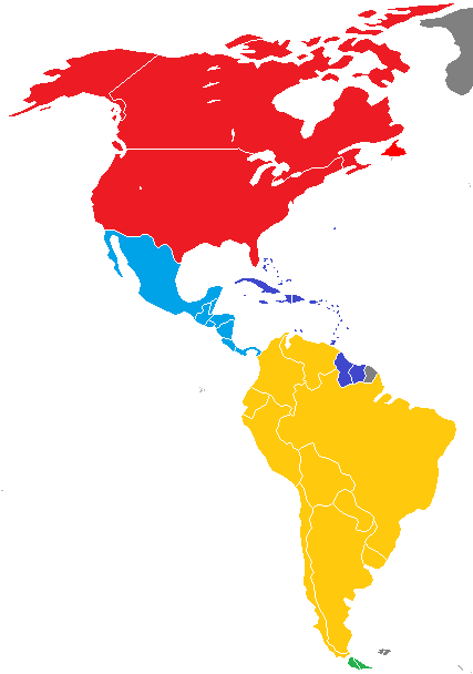 Subzones of FIBA Americas Source: [1] Notes: Central America and the Caribbean are administered jointly. Belize is free to join either of the Central American or Caribbean tournaments.